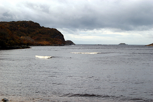 Loch Kirkaig Taken form the road.